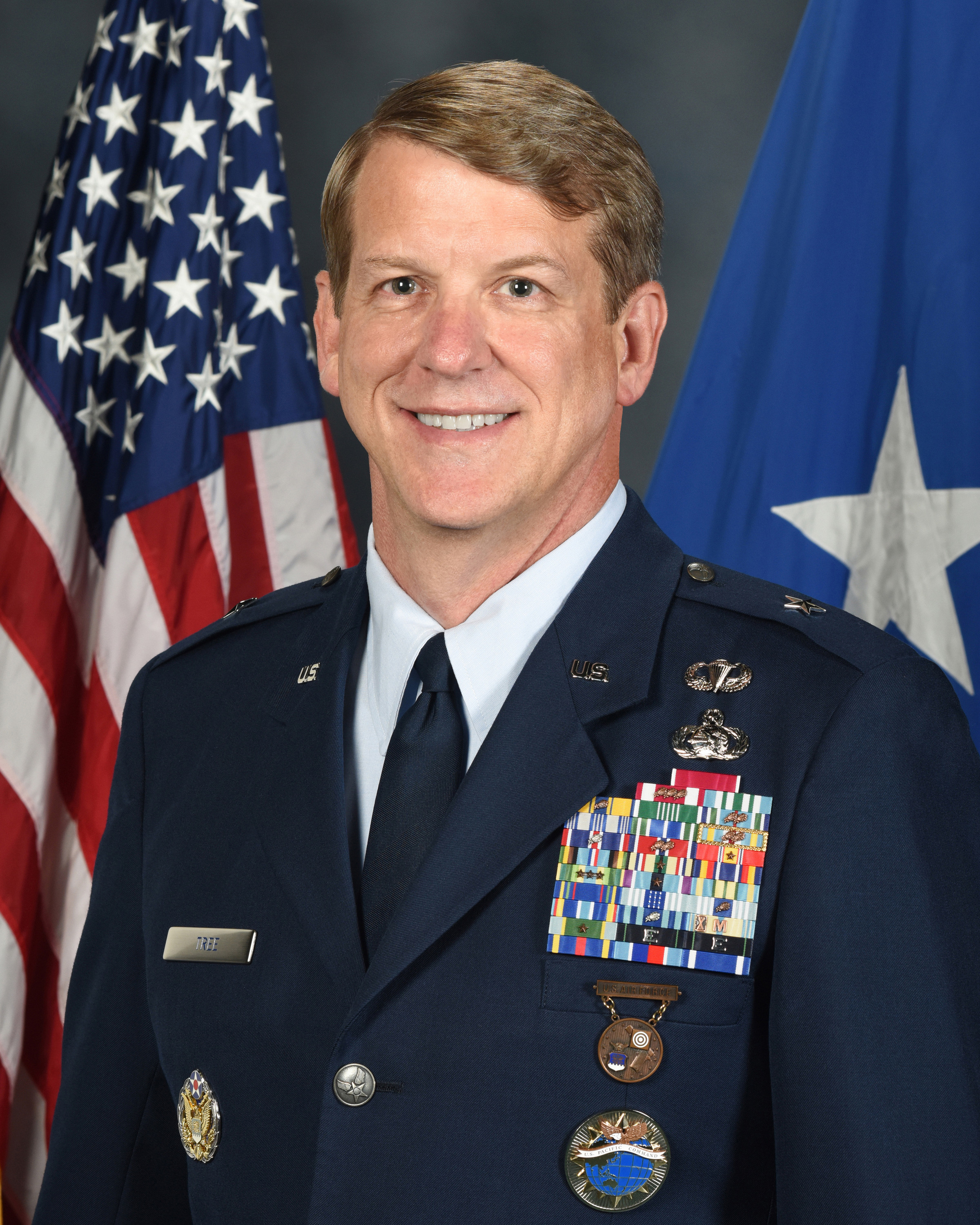 Official portrait